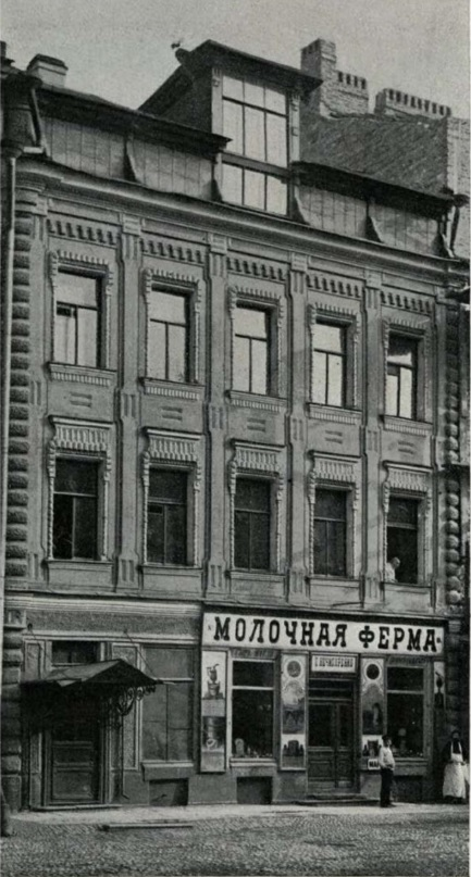 The house where the artist Arkhip Kuindzhi lived and worked in 1870s and 1880s (house #16 on Malyj Prospect, Vasilyevsky Island, Saint Petersburg)